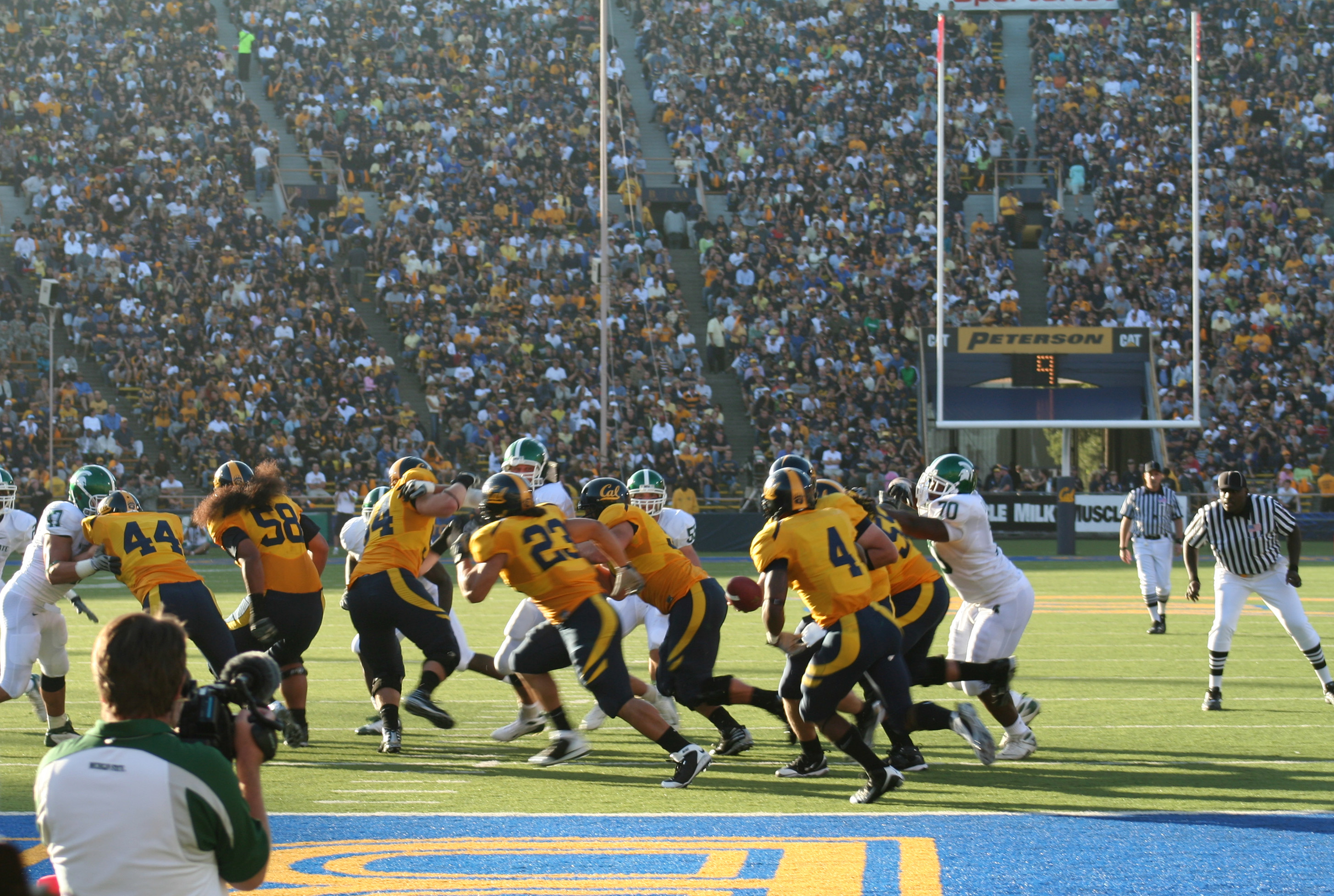 Cal quarterback Kevin Riley handing the ball of to Jahvid Best (#4)